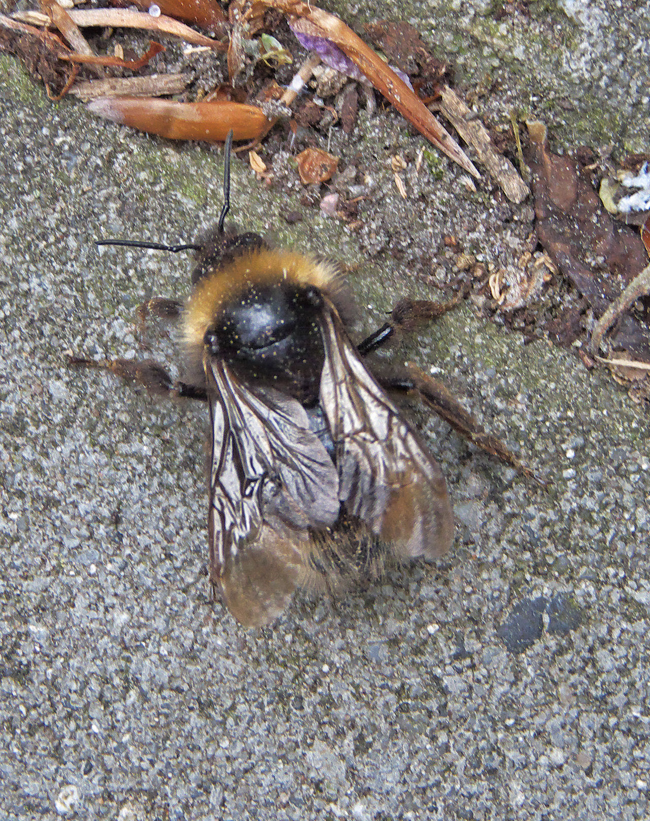 Bombus terrestris